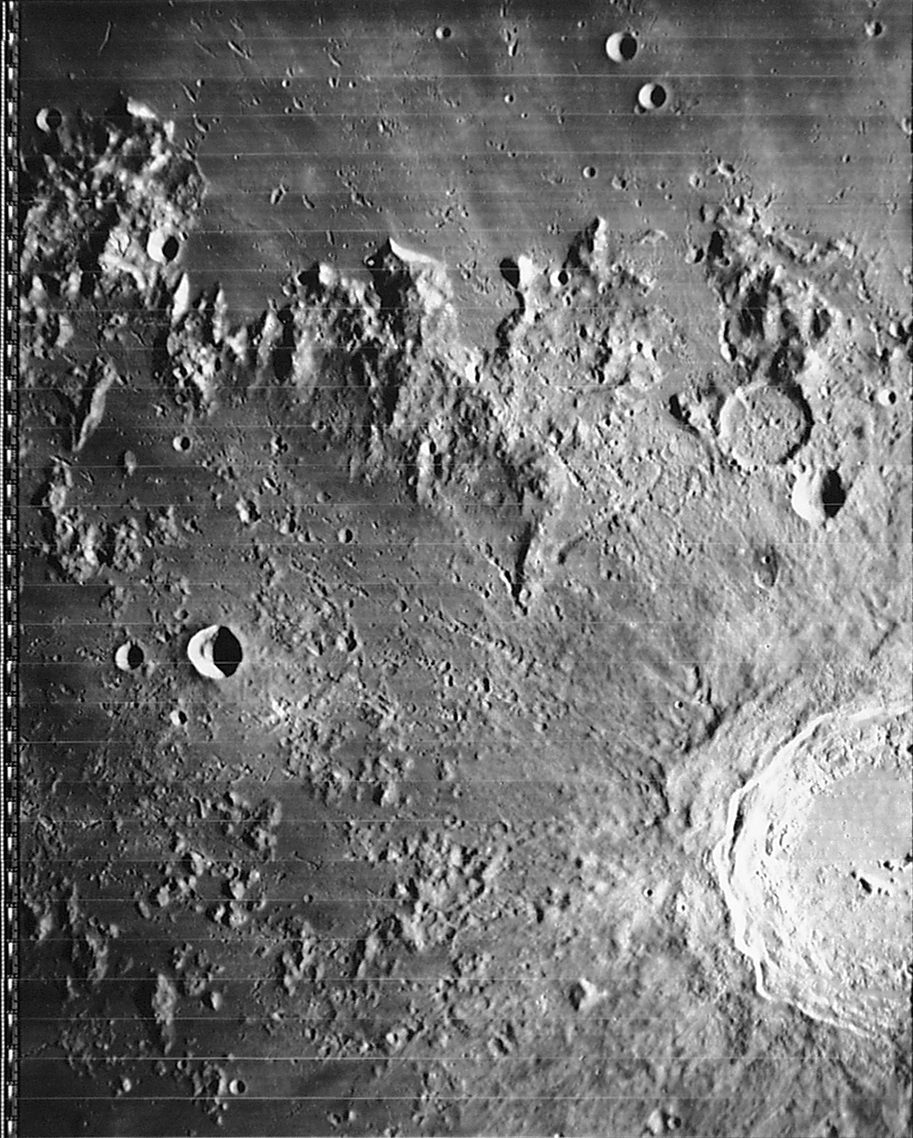 Montes Carpatus and Copernicus crater